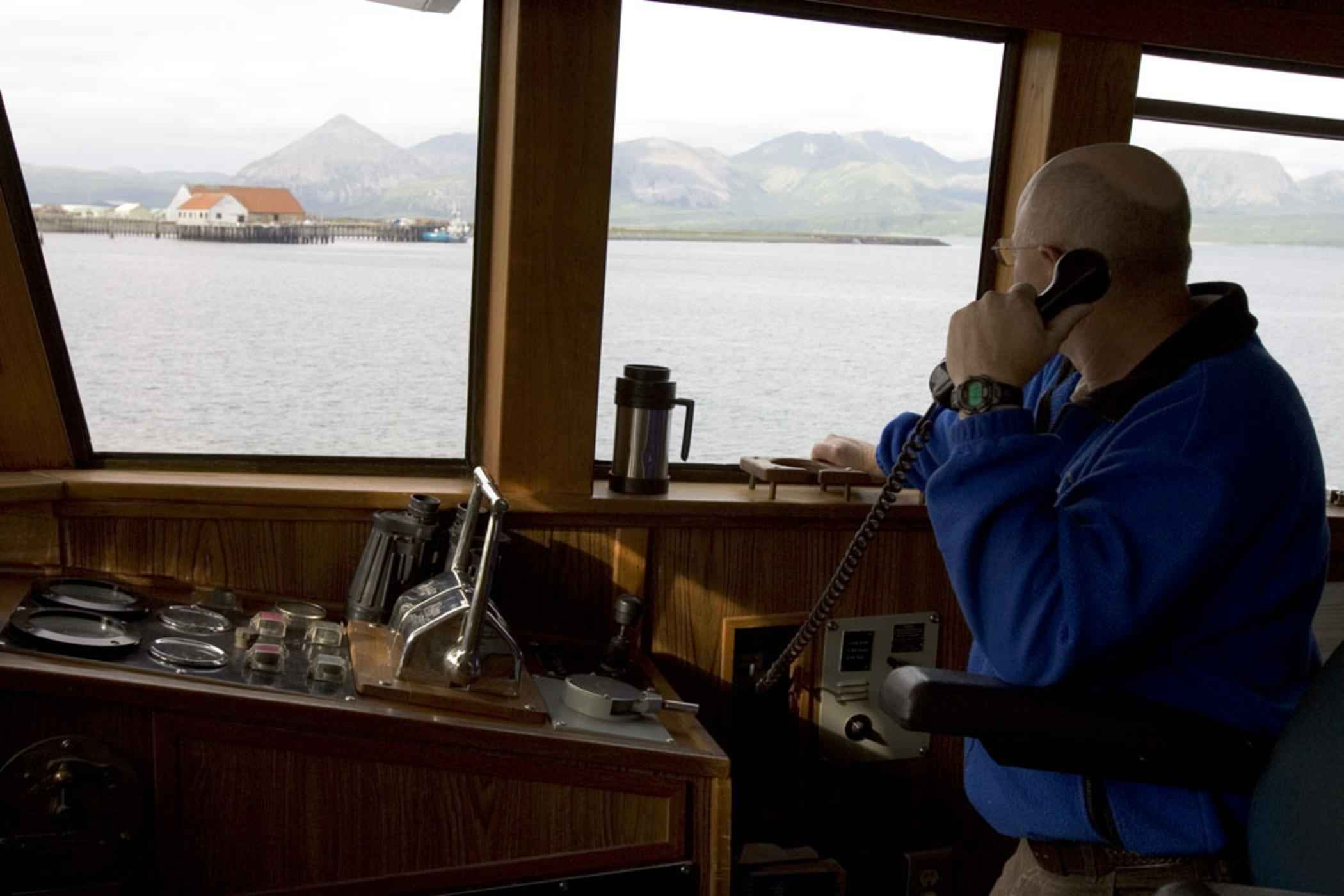 Image title: Captain on ship Image from Public domain images website